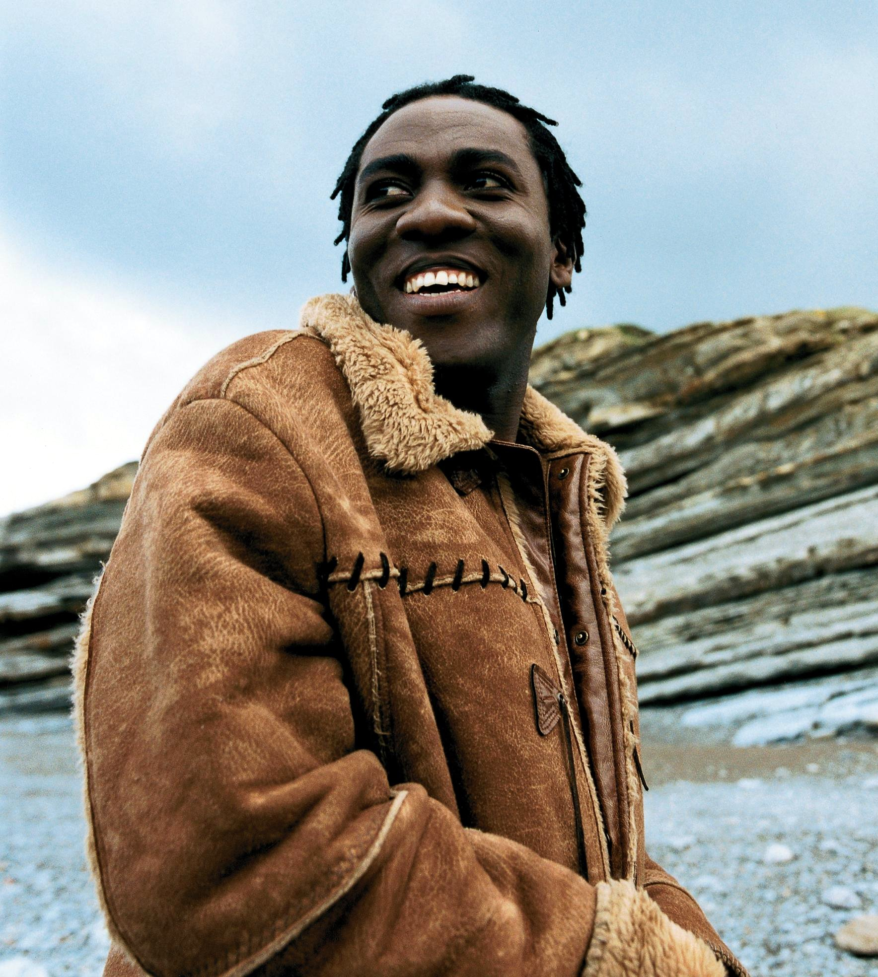 Richard Bona, musician Richard Bona